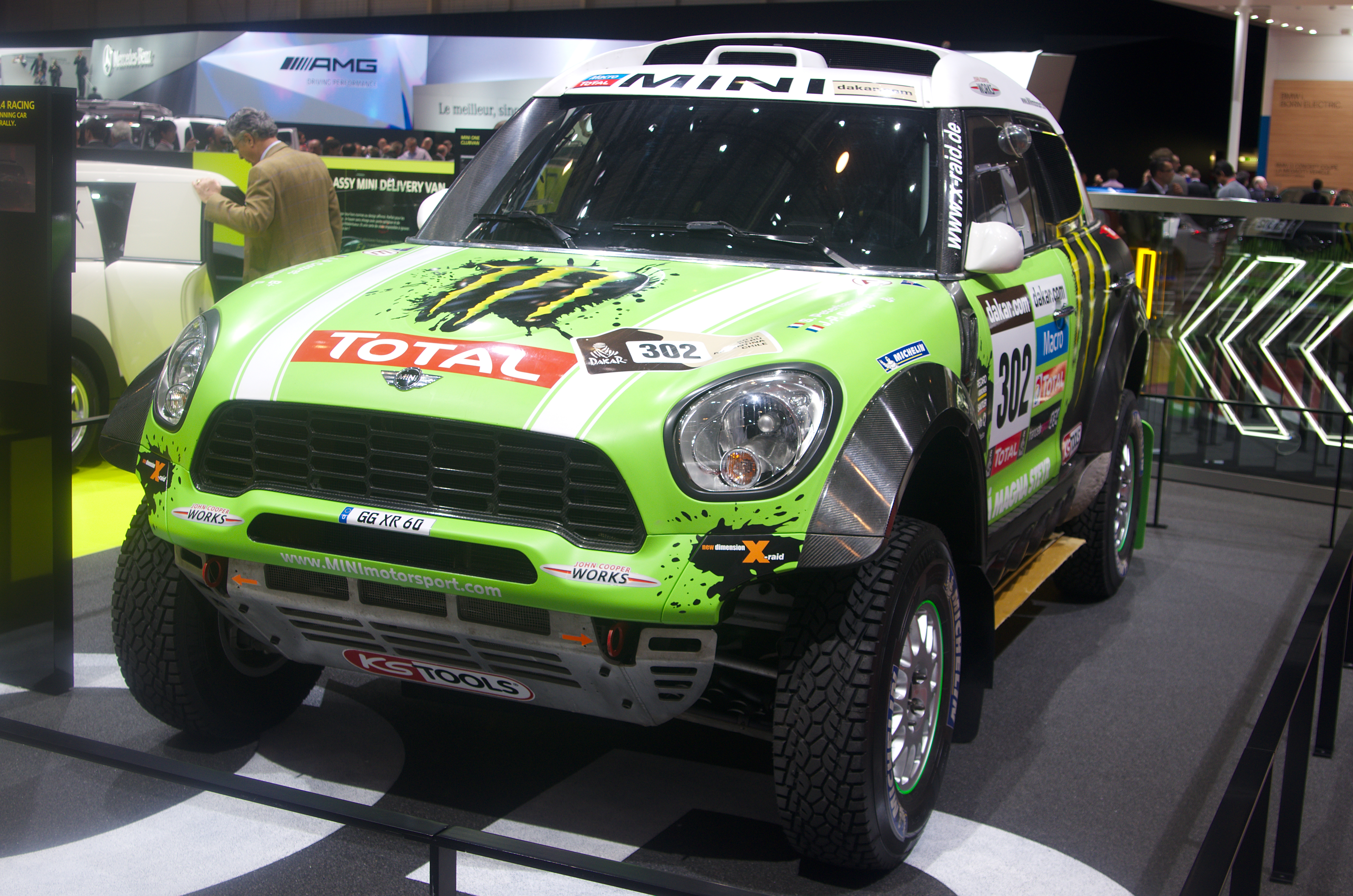 Geneva MotorShow 2013 - Mini Dakar front